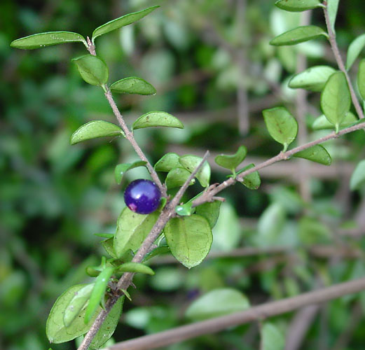 Box honeysuckle